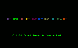 Title screen of an Enterprise 128 (created with Emulator MESS), colours in word Enterprise changing rapidly